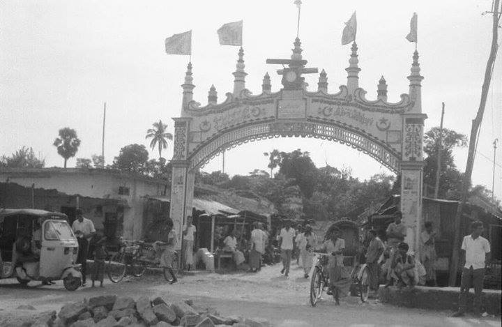 BAyazid Bostami mazar 1960